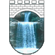 coat of arms Klina